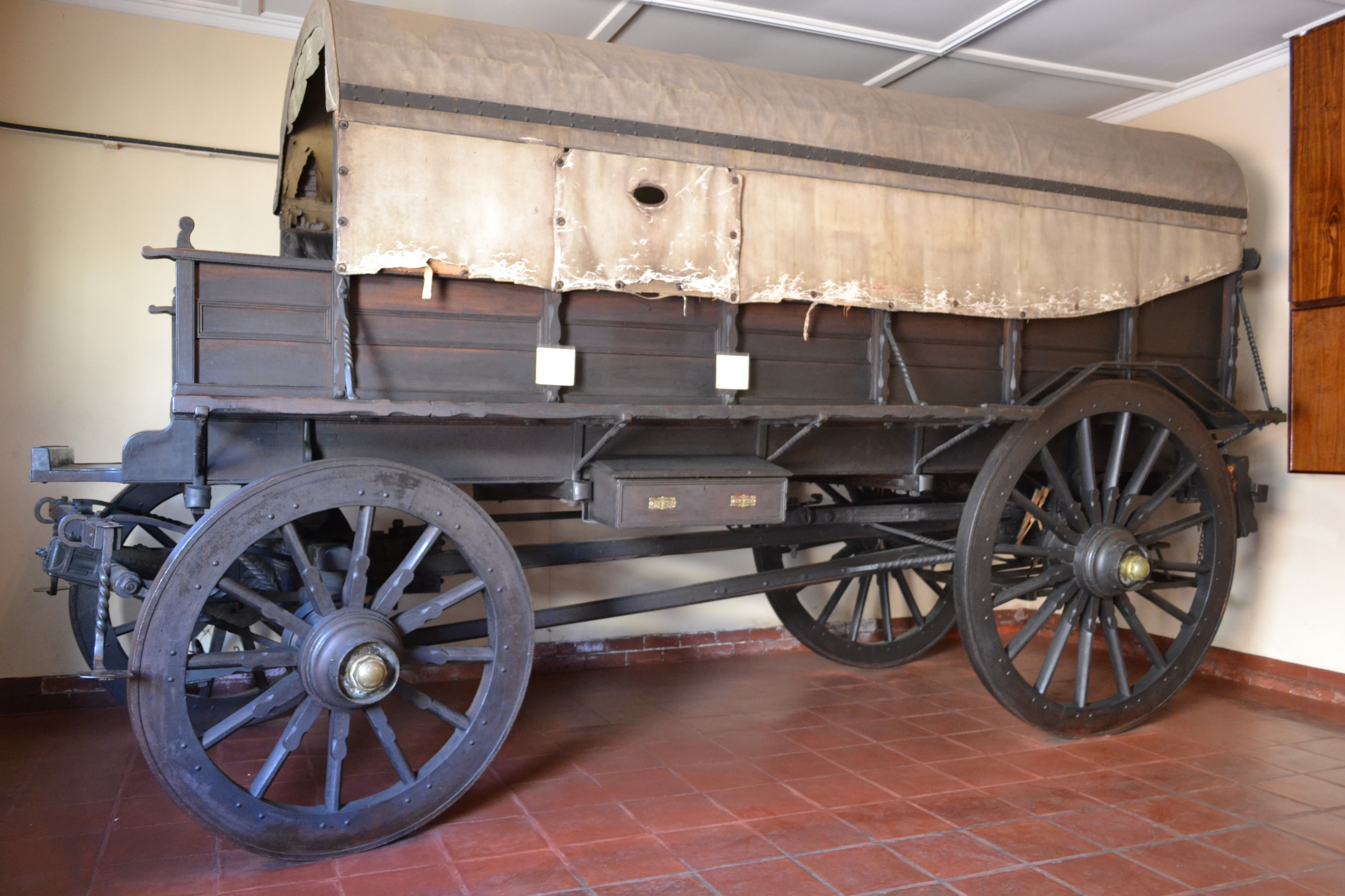 Kruger House Church Street Pretoria This media shows a South African Protected Site with SAHRA file reference 9/2/258/0010.